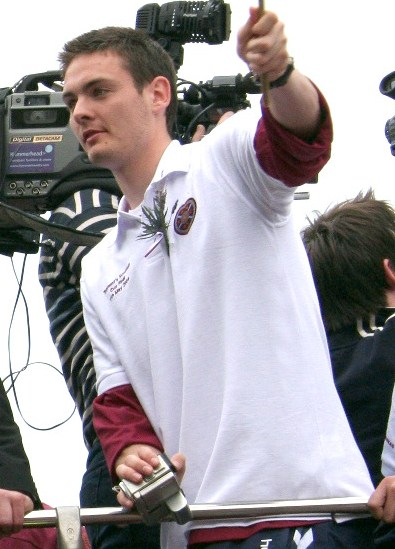 Craig Gordon. Image cropped from original at Flickr.